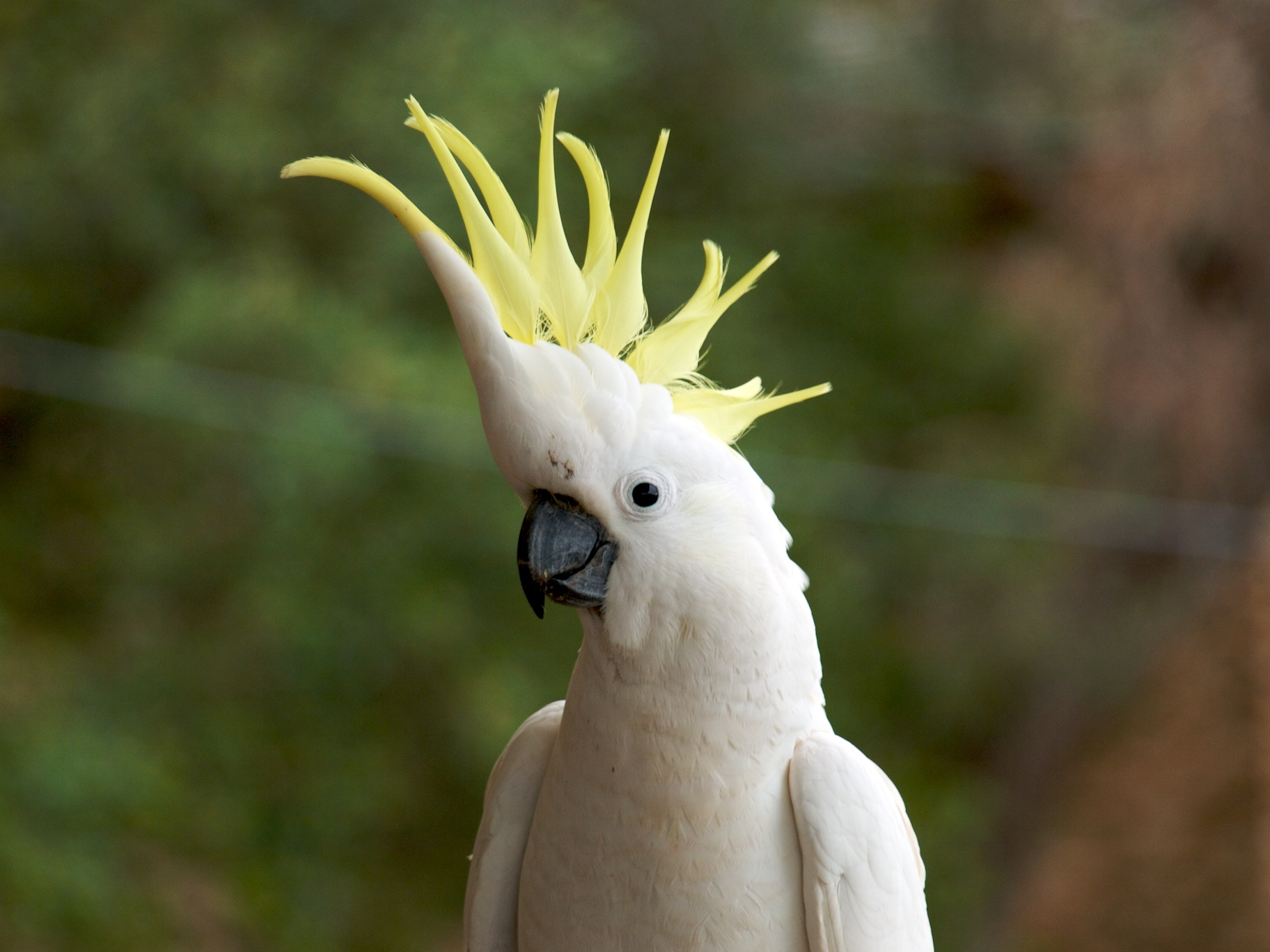 Sulphur-crested Cockatoo displaying its crest in Sydney, Australia.